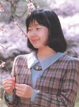 Imperial Princess Sayako, daughter of Retired Emperor Akihito